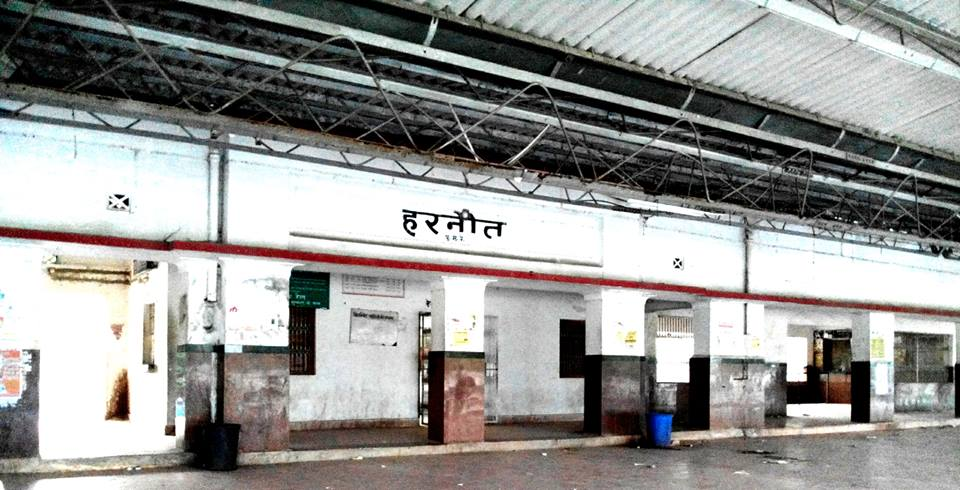 Harnaut_railway_station.jpeg